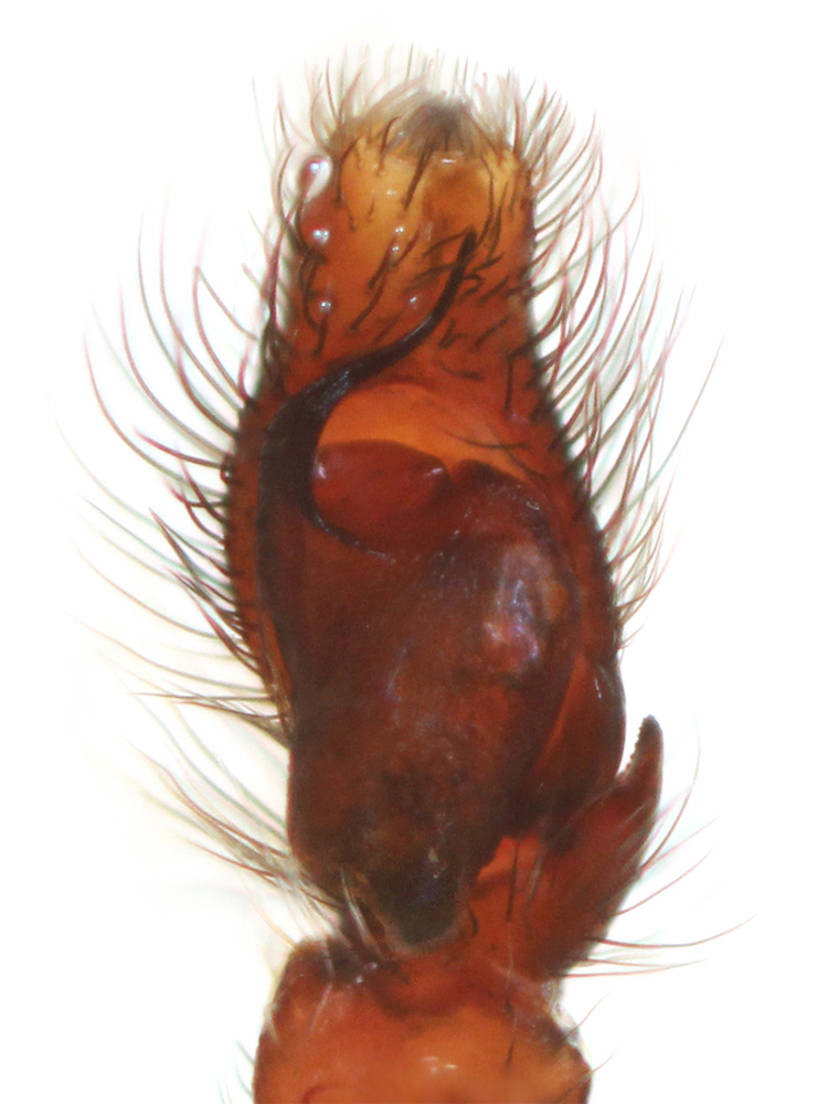 Pedipalp (under alcohol) of male Hakka himeshimensis jumping spider found at Marblehead, Massachusetts